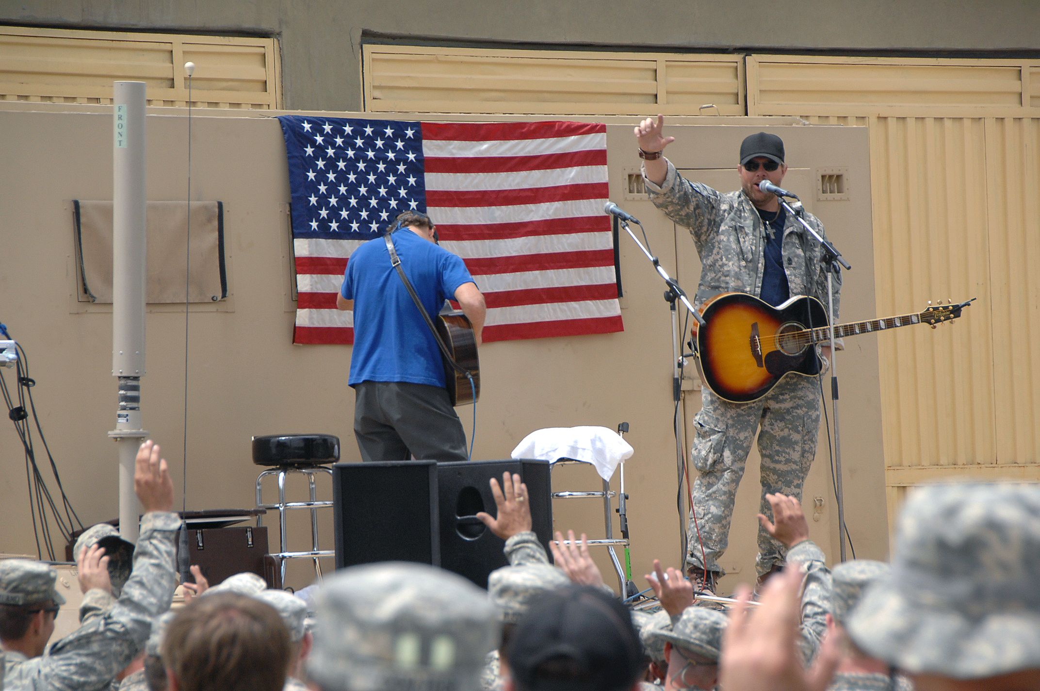 Toby Keith performs for soldiers from the 10th Mountain Division's 3rd Battalion who are assigned to Task Force Spartan during a USO tour stop on Forward Operating Base Shank, Logar province, Afghanistan, April 27,2009. U.S.Army photo by Sgt. Joshua LaPere